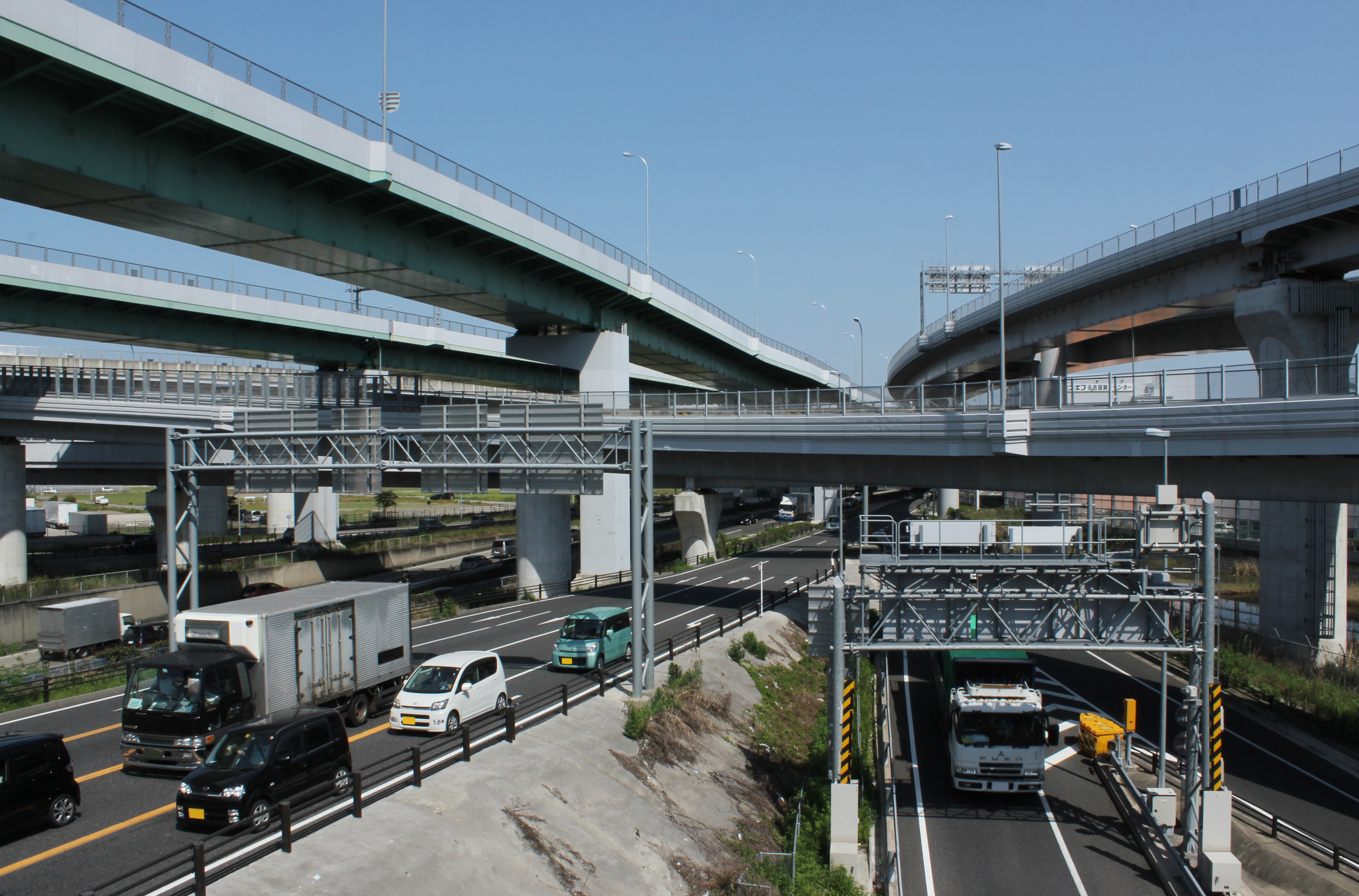 Kiyosu Junction on the Nagoya and Nagoya-Daini-Kanjo (Meinikan) Expressways